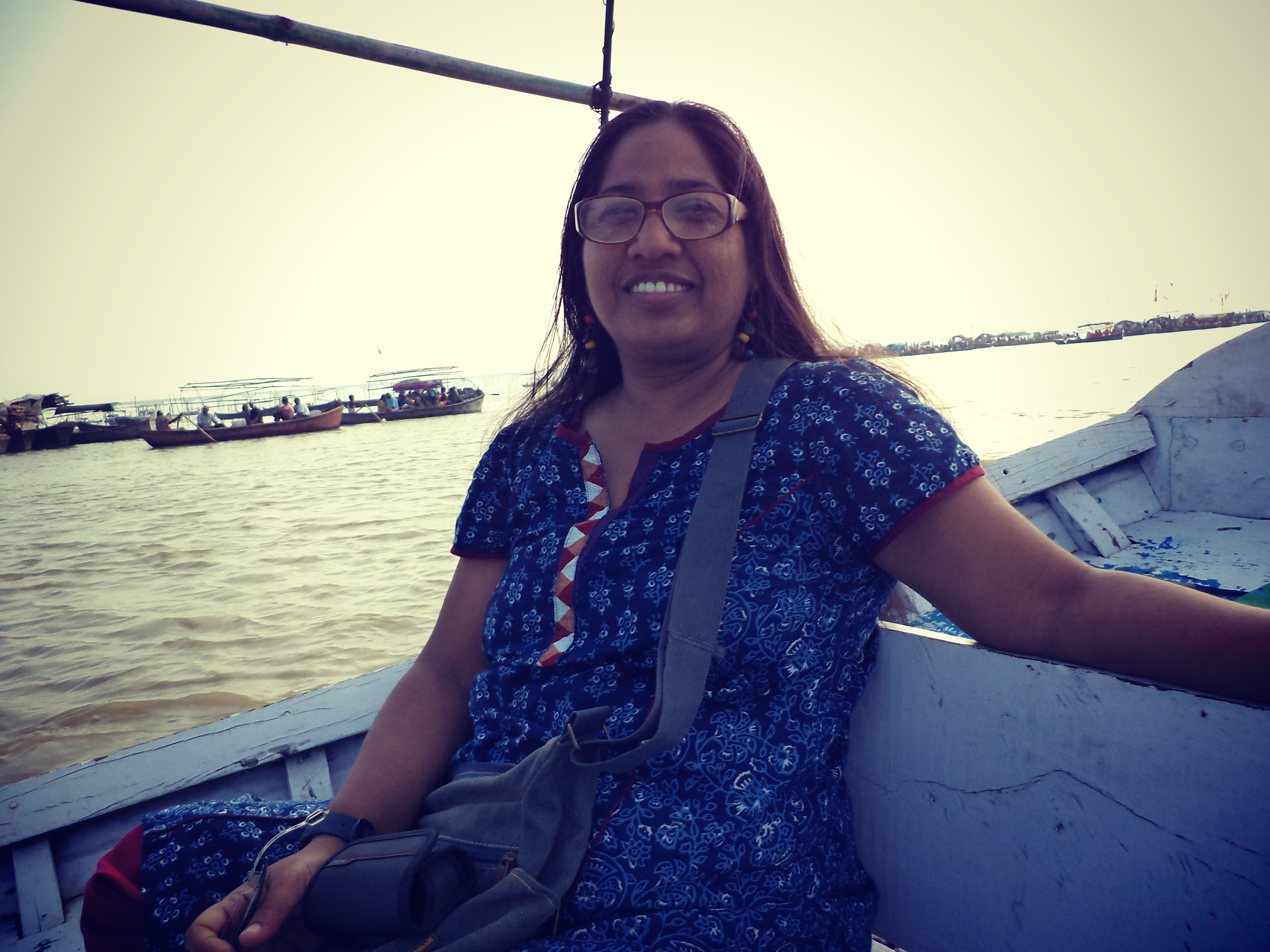 Anita bharti at Allahabad sangam